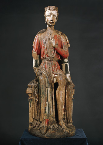 A statue of the Norwegian saint Olaf from Fresvik church, Sogn og Fjordane, Norway.